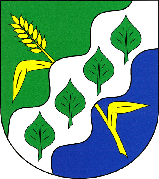 Coat of amrs of Opolany , District Nymburk, Czech republic